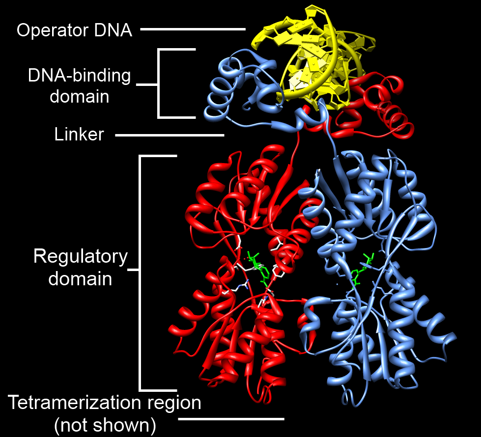 Annotated structure of LacI dimer bound to operator DNA and OPNF based on PDB structure 1efa. Created by user SocratesJedi using UCSF Chimera on 2011-10-27. Molecular graphics images were produced using the UCSF Chimera package from the Resource for Biocomputing, Visualization, and Informatics at the University of California, San Francisco (supported by NIH P41 RR001081).